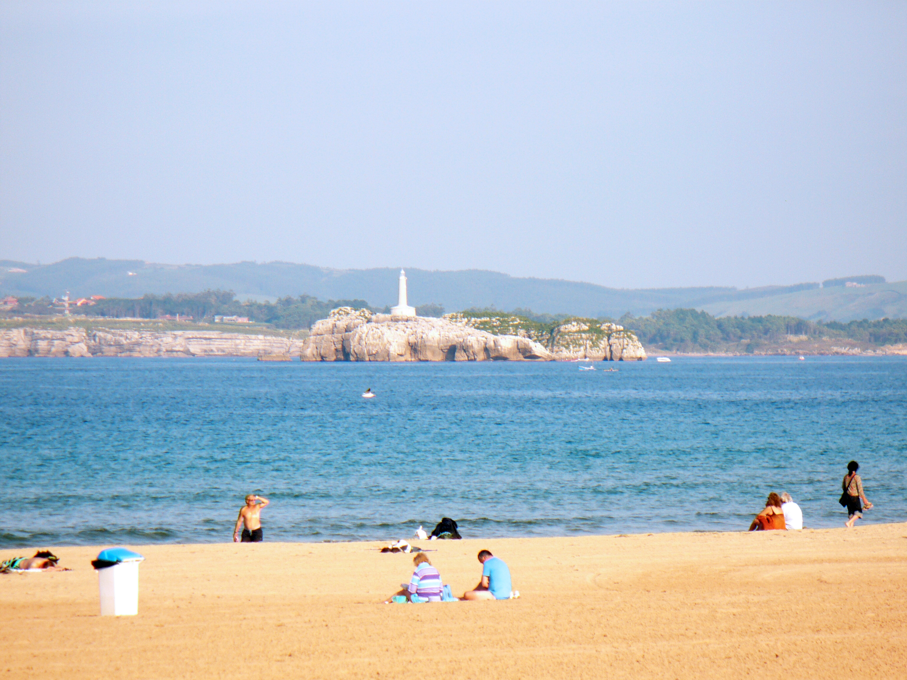 Mouro Island, in the bay of Santandé (Cantabria), as seen from El Sardinero.